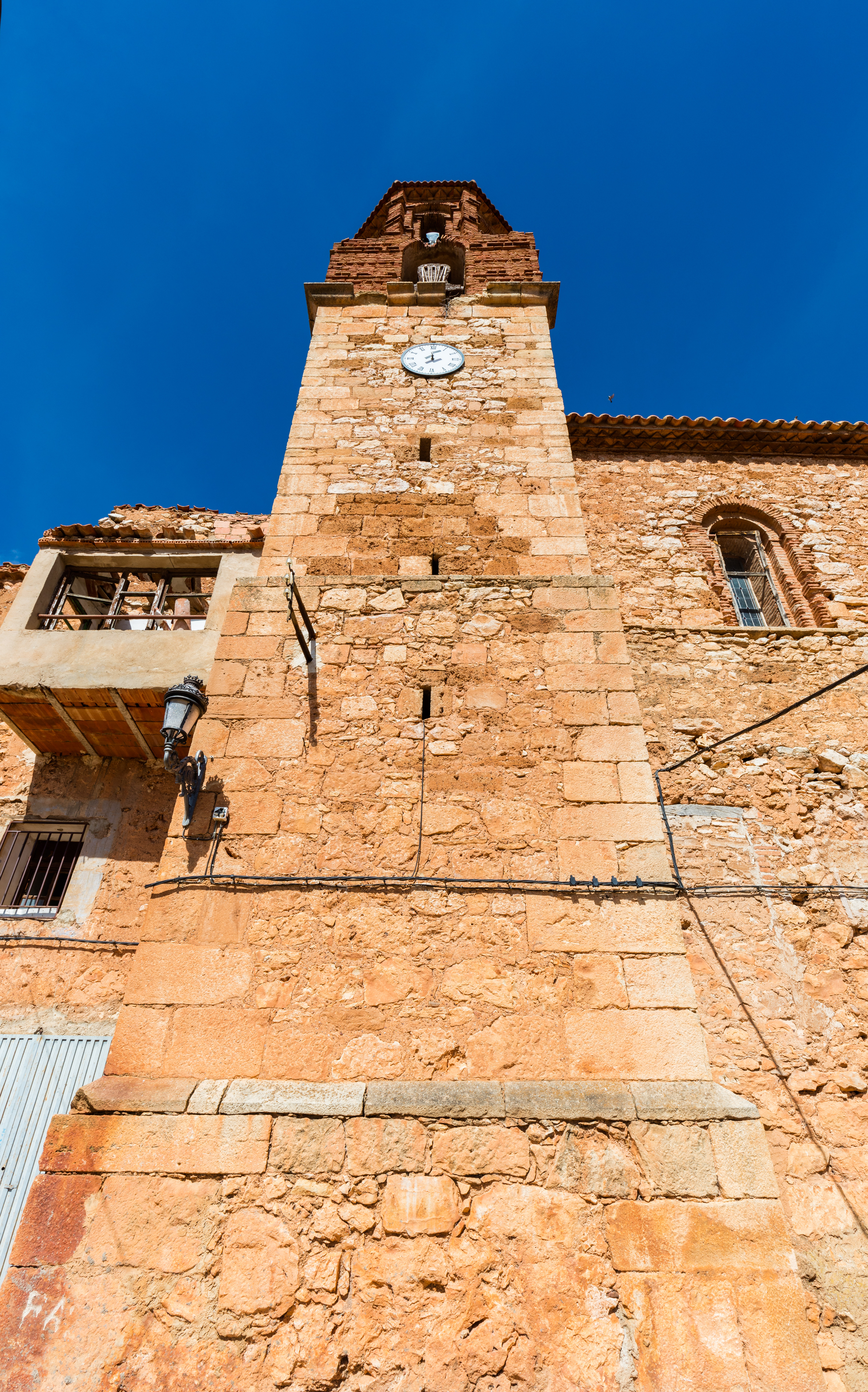 Church of St John the Baptist, Campillo de Aragón, Zaragoza, Spain